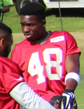 Robenson Therezie wearing #48 at Falcons camp